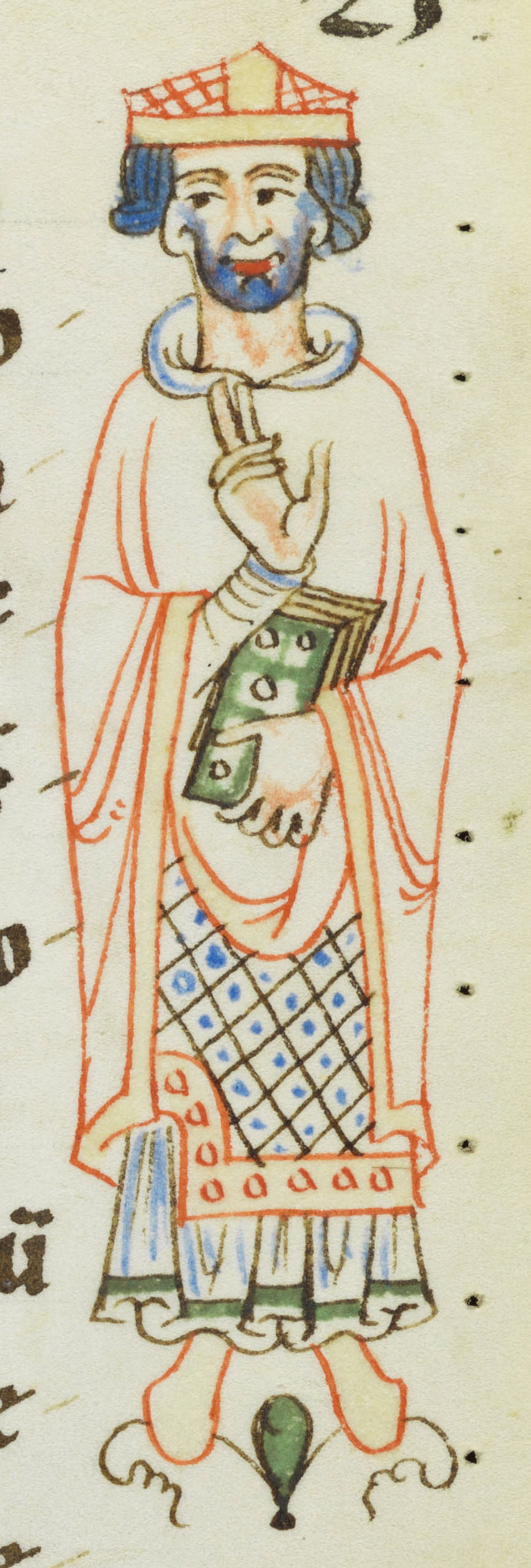 Acta Sancti Petri in Augia; St. Gallen, Kantonsbibliothek, Vadianische Sammlung, VadSlg Ms. 321, S. 25, Papst Honorius III